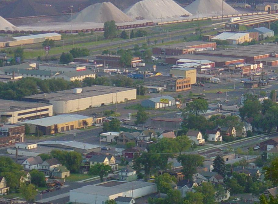 Lincoln Park neighborhood from Enger Tower (Duluth, Minnesota). Cropped from a larger picture. Taken 2004 by Jacob Norlund. Public domain, baby.